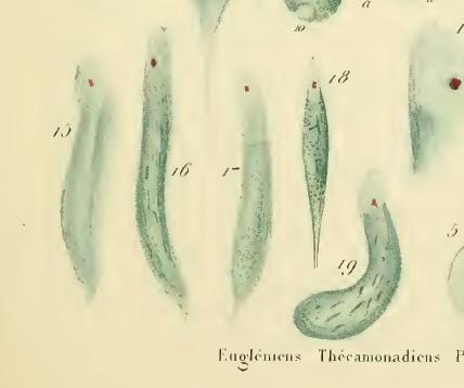 Euglena, as depicted in Felis Dujardin's Histoire Naturelle des Zoophytes (1841)